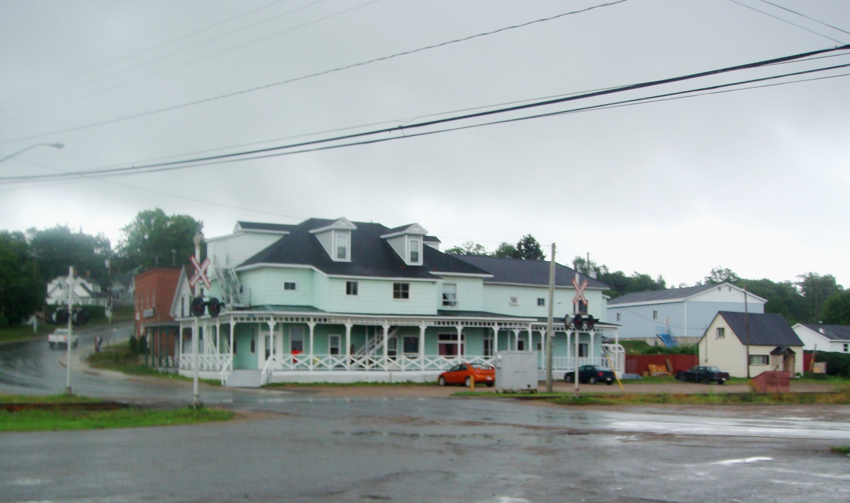 Harvey Station, York County, New Brunswick, Canada